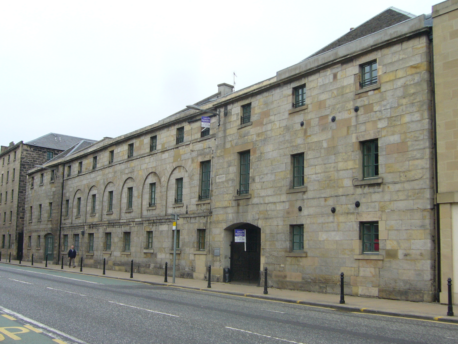 Former bonded warehouse, dating from about 1810, in Leith's main commercial street. Junction Street follows the line of the wall of the French fort built between 1548 and 1560 during the regency of Mary of Guise. It was demolished after a combined force of Scottish and English Protestants forced the evacuation of the occupying French troops in the 1560 Siege of Leith. The open "killing ground" in front of the wall became a thoroughfare.